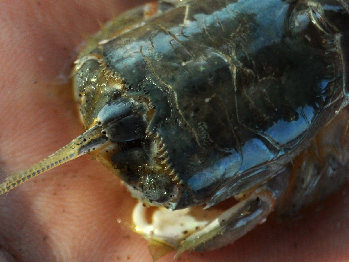 Mole crabs, Albunea symmysta (carapace length 19mm) frontal region close up. Palabuhanratu, West Java, Indonesia.